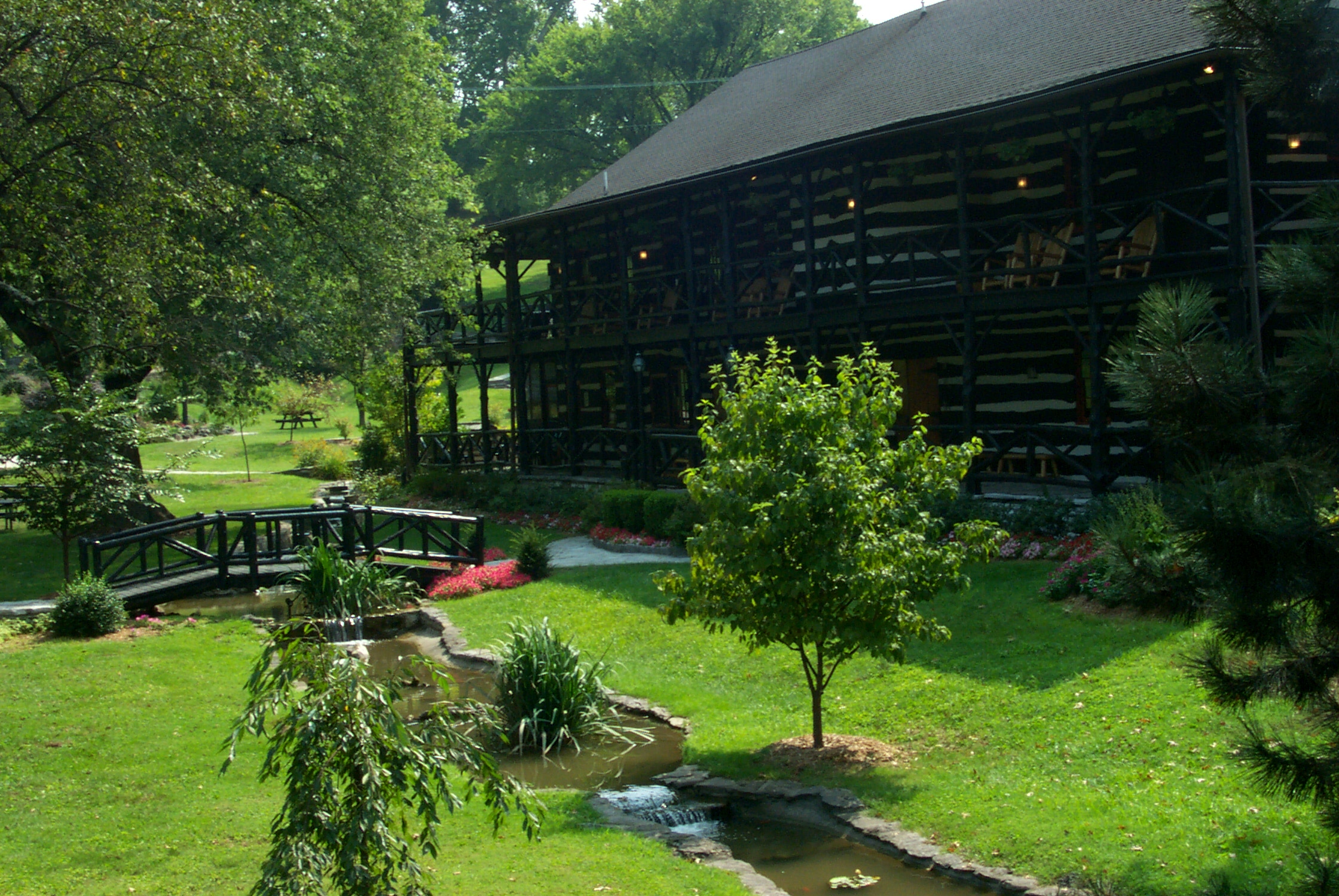 This image was copied from en. The original description was:Grounds and guest house at the Buffalo Trace Distillery in Frankfort, Kentucky USA.